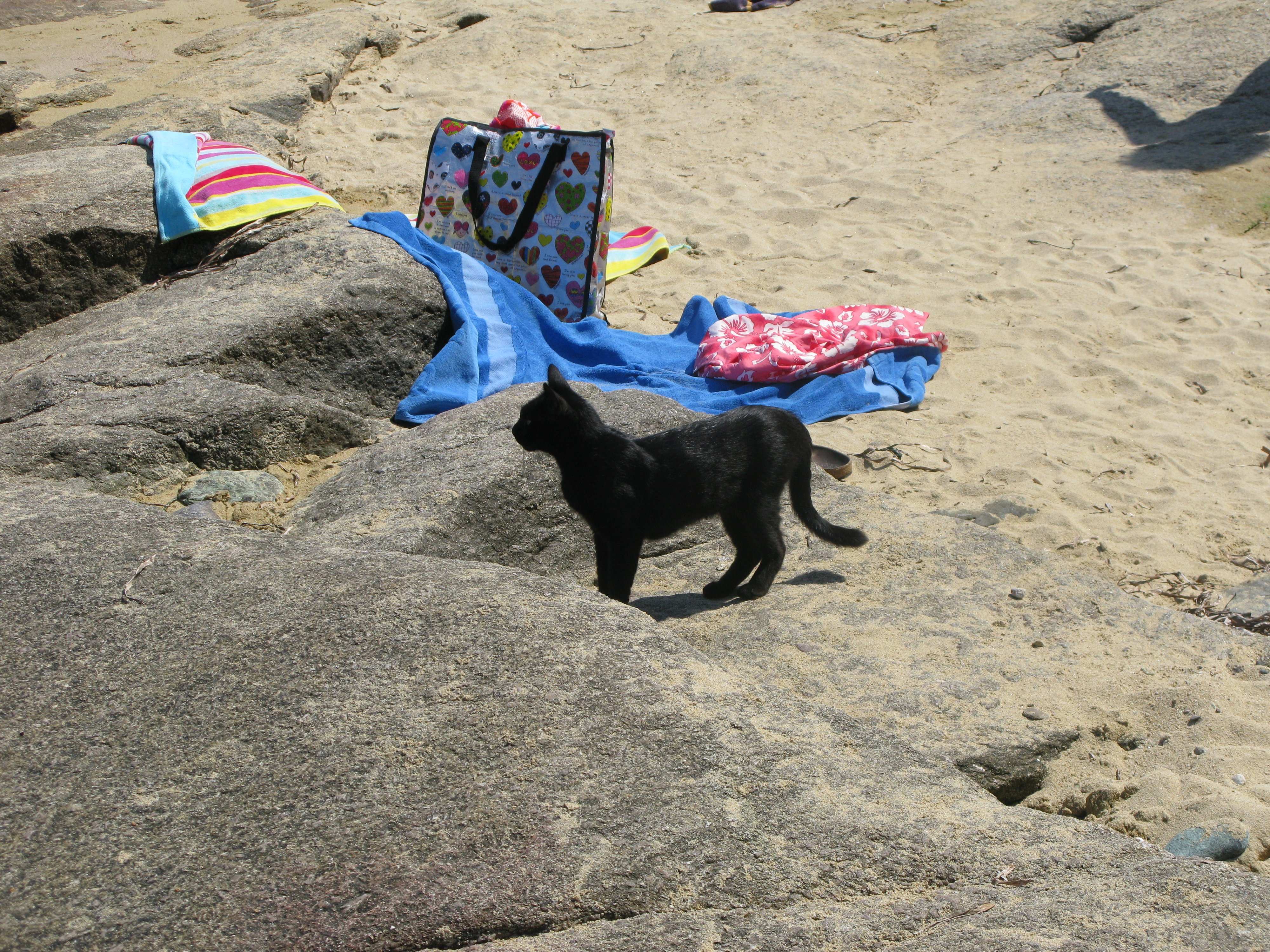 Domestic black cat (felis silvestris catus) on the beach of Algajola, Corsica, near beach stuff.